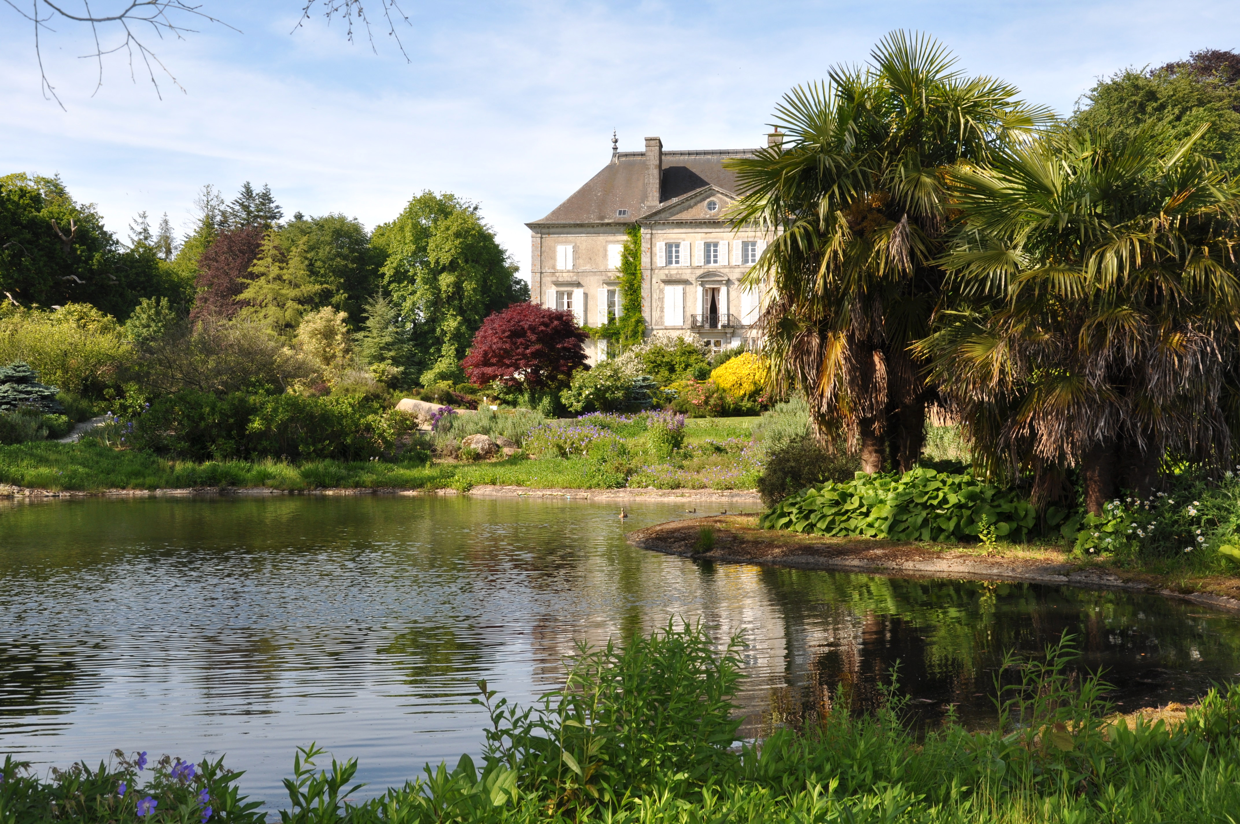 Castle of The Foltiere in the middle of the Jardin botanique de Haute-Bretagne